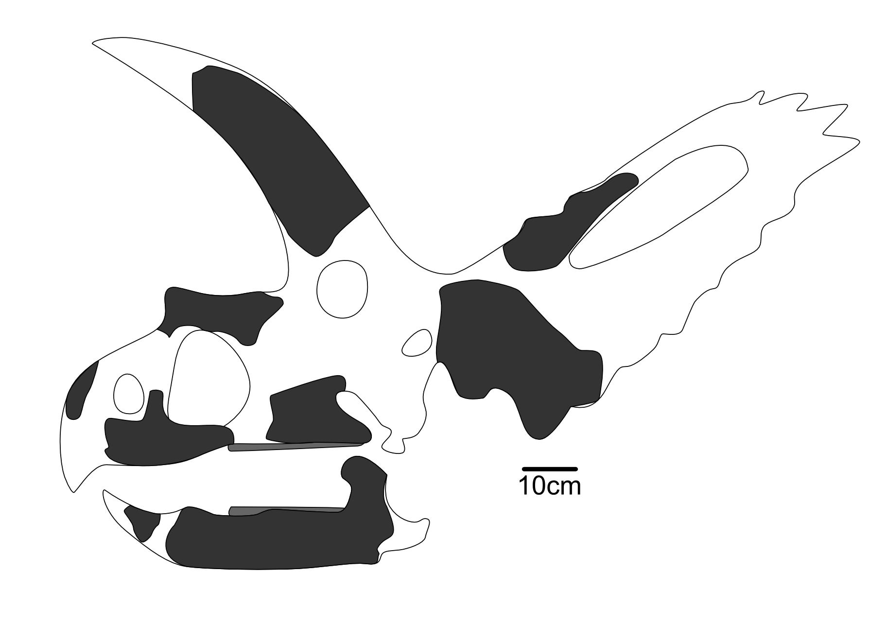 skull of Coahuilaceratops, known parts in grey